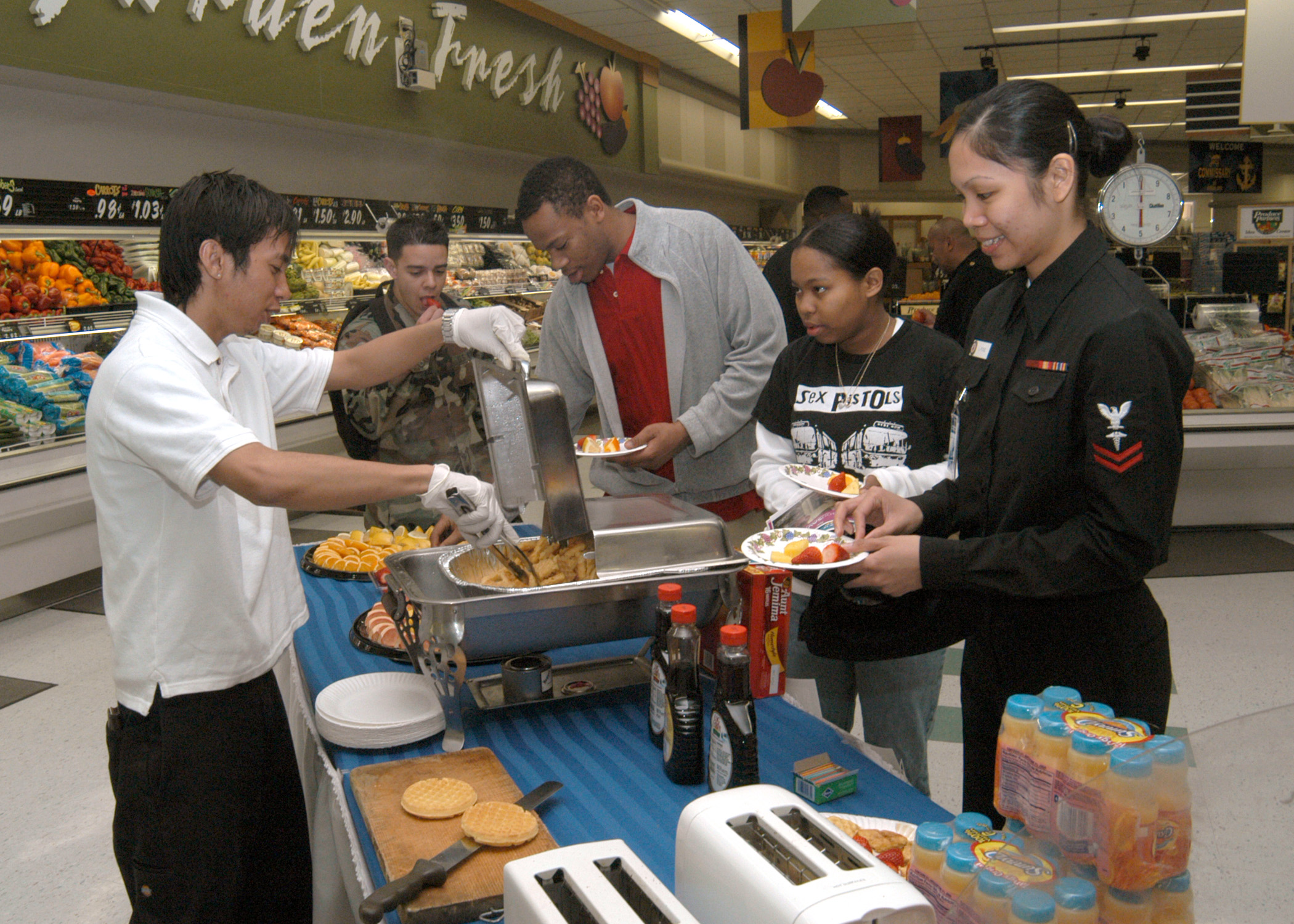 Yokosuka, Japan (Feb. 15, 2006) - Sailors enjoy free samples of various breakfast items during the Yokosuka's commissary outreach program in Japan. This program is designed to educate single Sailors on the money-saving benefits of shopping at the commissary and to show them what products are available. U.S. Navy photo by Photographer's Mate 2nd Class Chantel M. Clayton (RELEASED)